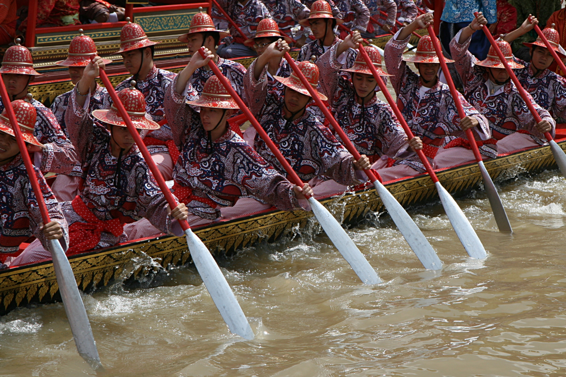 The crew of escort barges rowing away from the dock at Wat Rachathiwat in preparation for Royal Barge Procession rehearsal. Bangkok, Thailand.